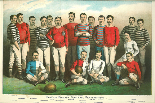 Famous English football players.